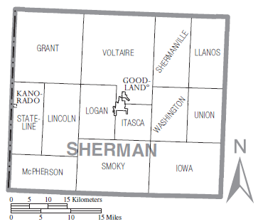 Map of Sherman County, Kansas, United States with township and municipal boundaries